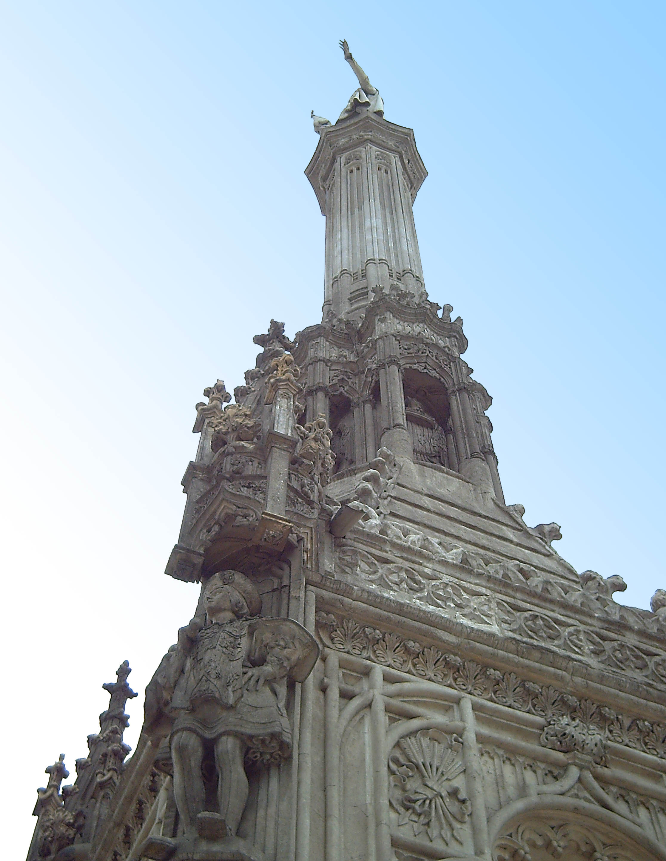 Monument to Cristopher Columbus (1451?–1506) at the Plaza de Colón ("Columbus Square") in Madrid (Spain). Designed by Arturo Mélida (1849–1902) and built from 1881 to 1885. Square base with reliefs and octagonal pillar were sculpted in stone by Mélida. Columbus statue (three metres high) was sculpted in Italian white marble by Jerónimo Suñol (1839–1902).